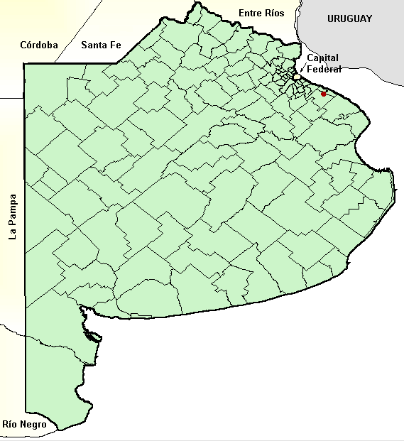 It shows administrative division of Buenos Aires province, its capital (red point) and its boundaries.